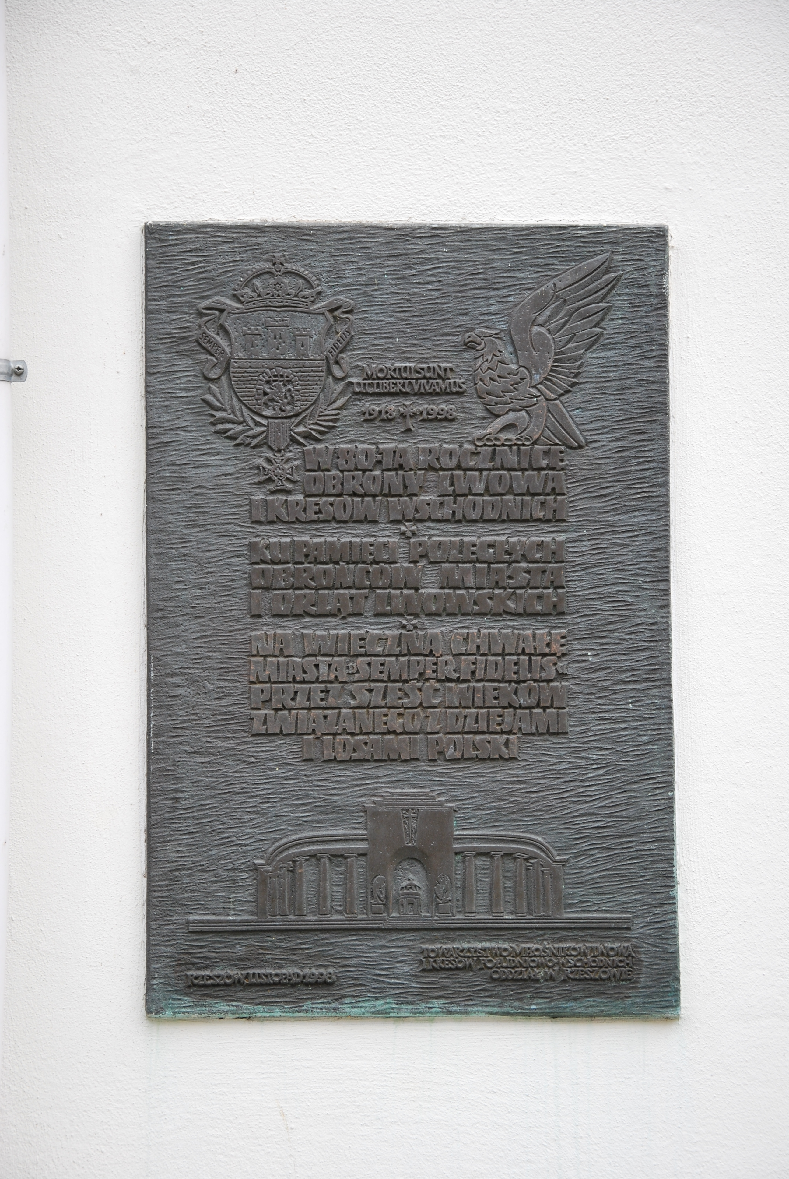 Plaque 80 anniversary of defense of Lviv, Rzeszów